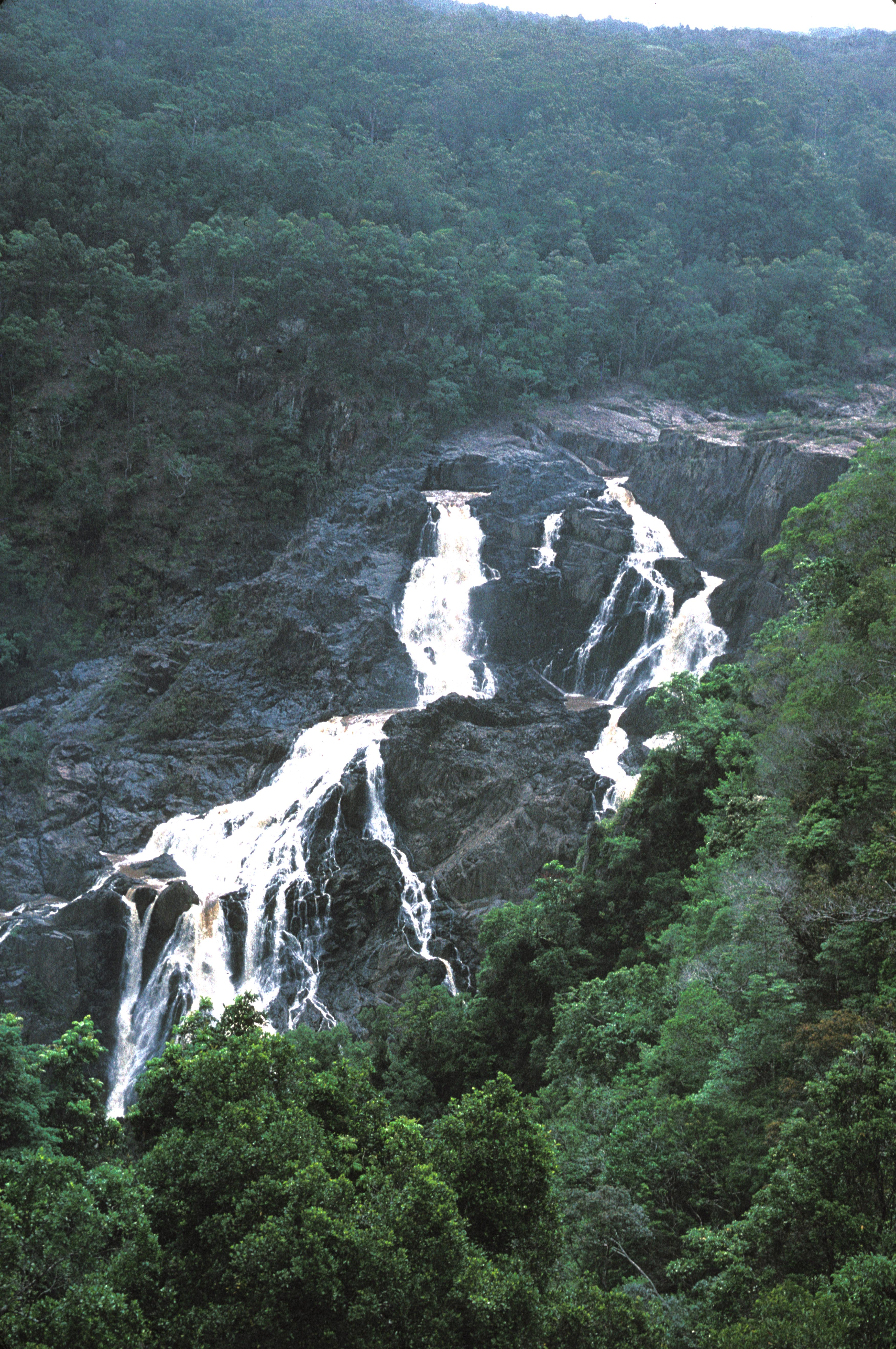 BARRON FALLS ON THE BARRON RIVER IN BARRON FALLS NATIONAL PARK; 2ND STOP ON THE SKYRAIL CABLEWAY UPWARD TRIP. LOCATED IN KURANDA, QUEENSLAND, Australia